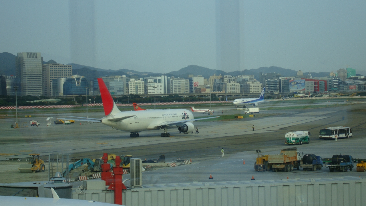 Songshan Airport observation deck at the far right field of vision, you can see international flights.